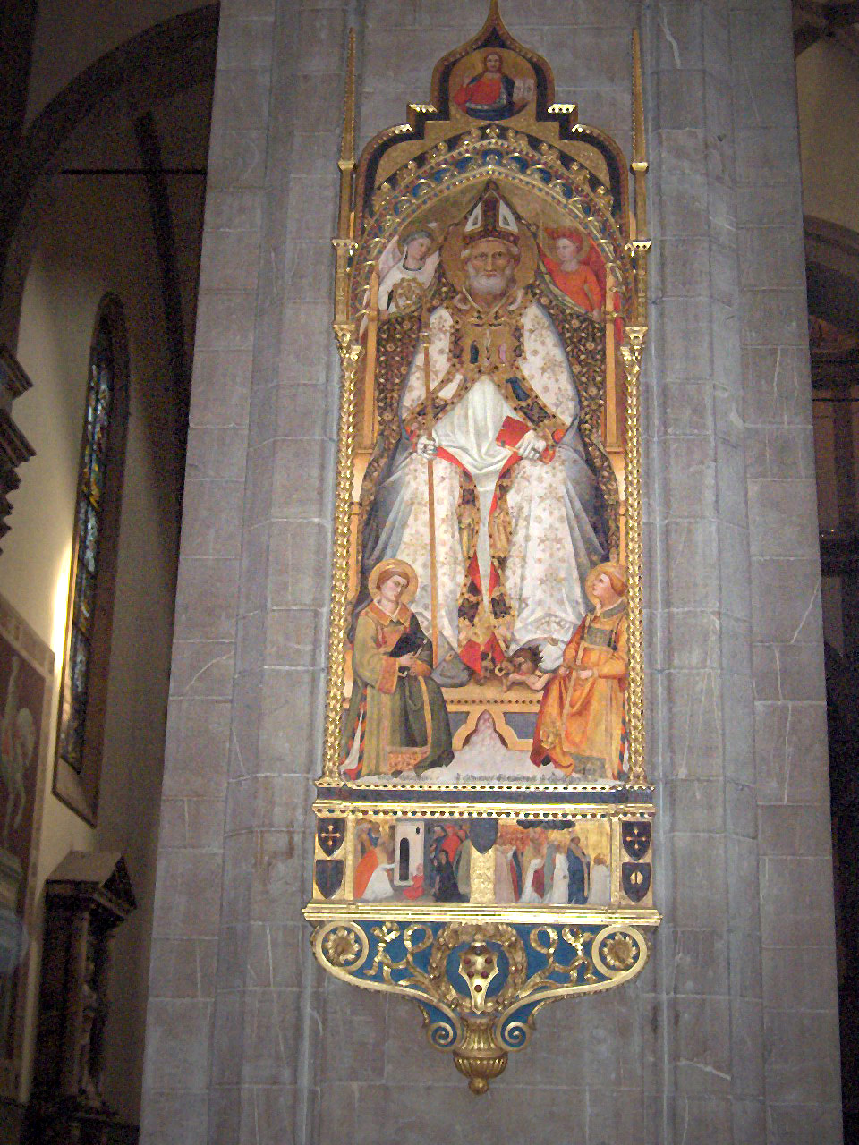 Painting on a pillar in the Duomo Santa Maria del Fiore; Florence, Italy